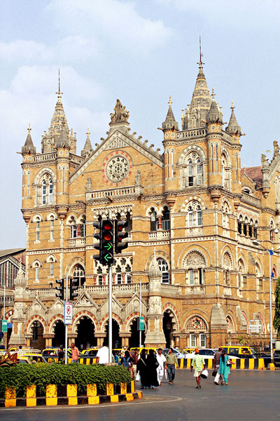 Facade of CST that opens to D N Road